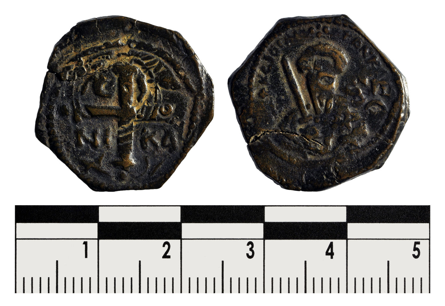 A bearded Tancred brandishes a sword whilst wearing a jewelled turban.